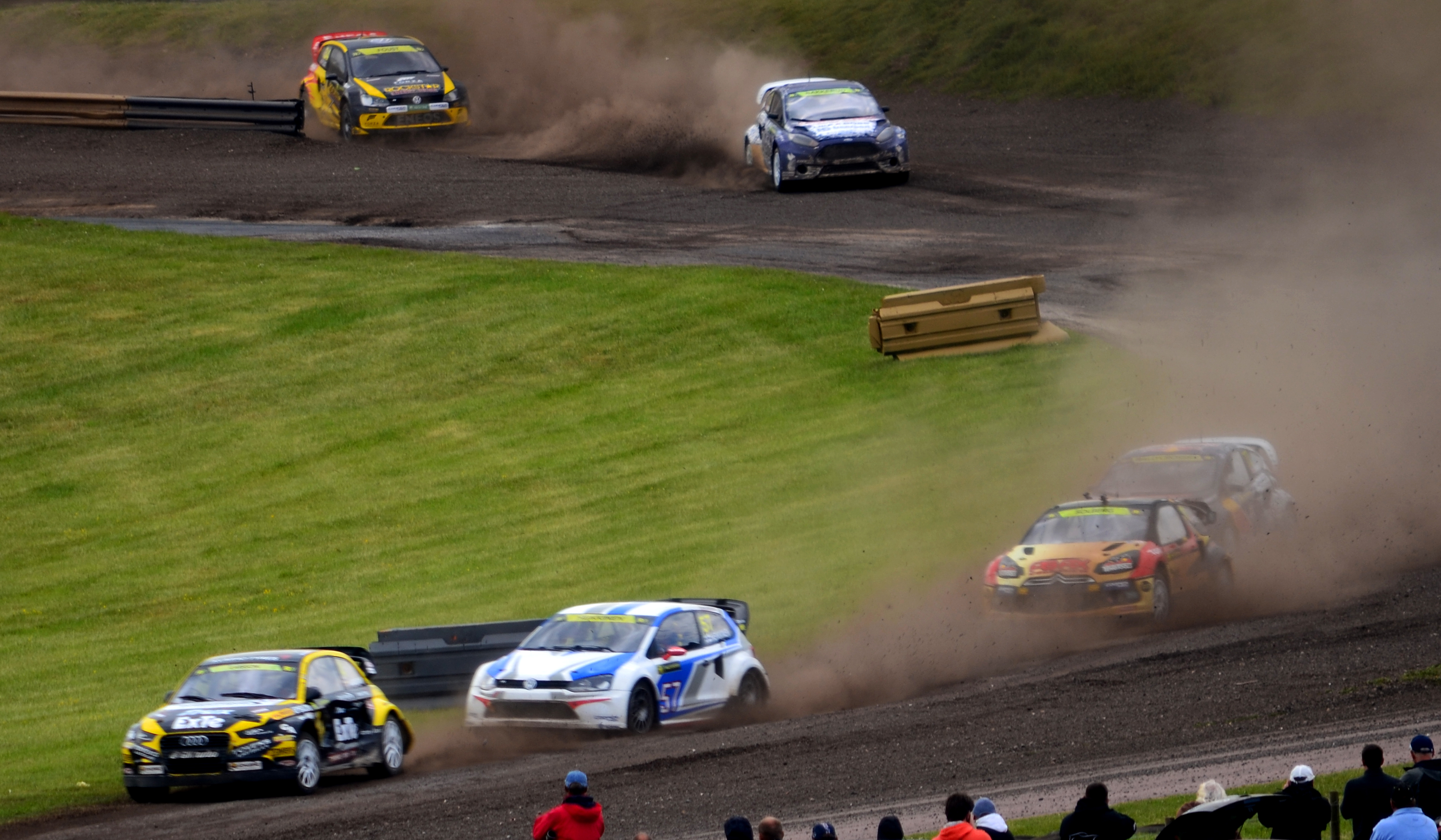 Robin Larsson leads the way from Toomas Heikkinen, Petter Solberg, Andrew Jordan, Andreas Bakkerud and Tanner Foust at the start of the super car final of round 2 of the 2014 FIA World Rallycross Championship at Lydden Hill.